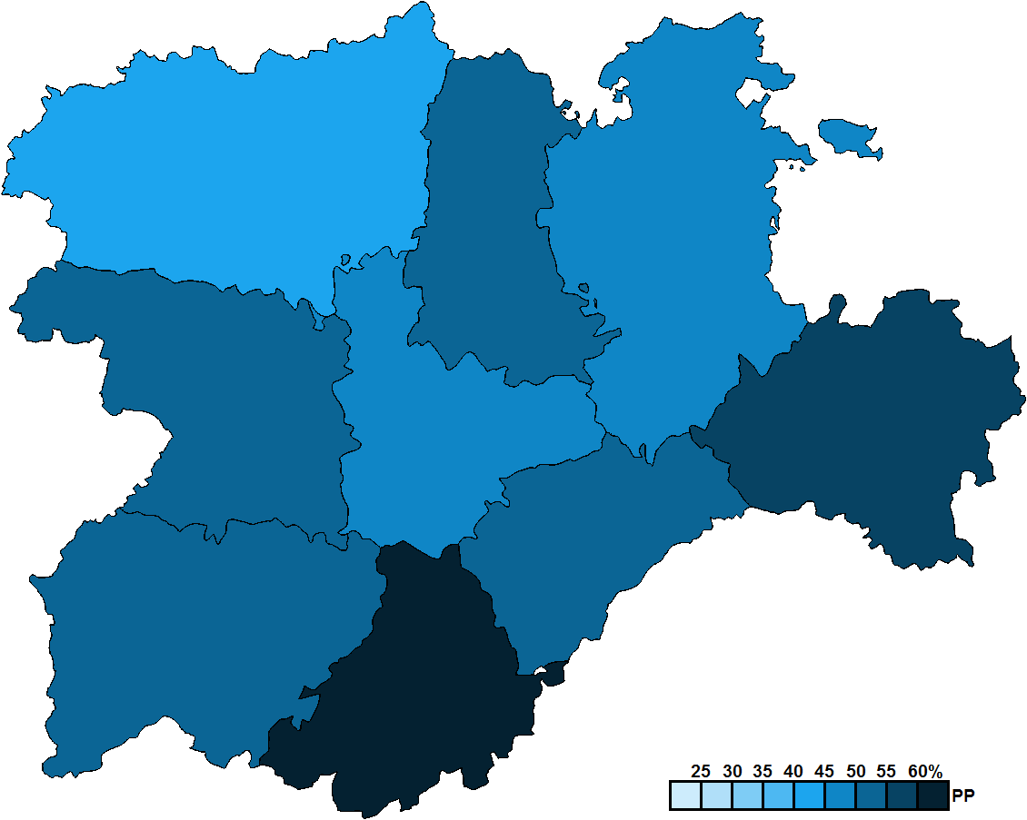 Provincial results for the 1999 Castilian-Leonese regional election.